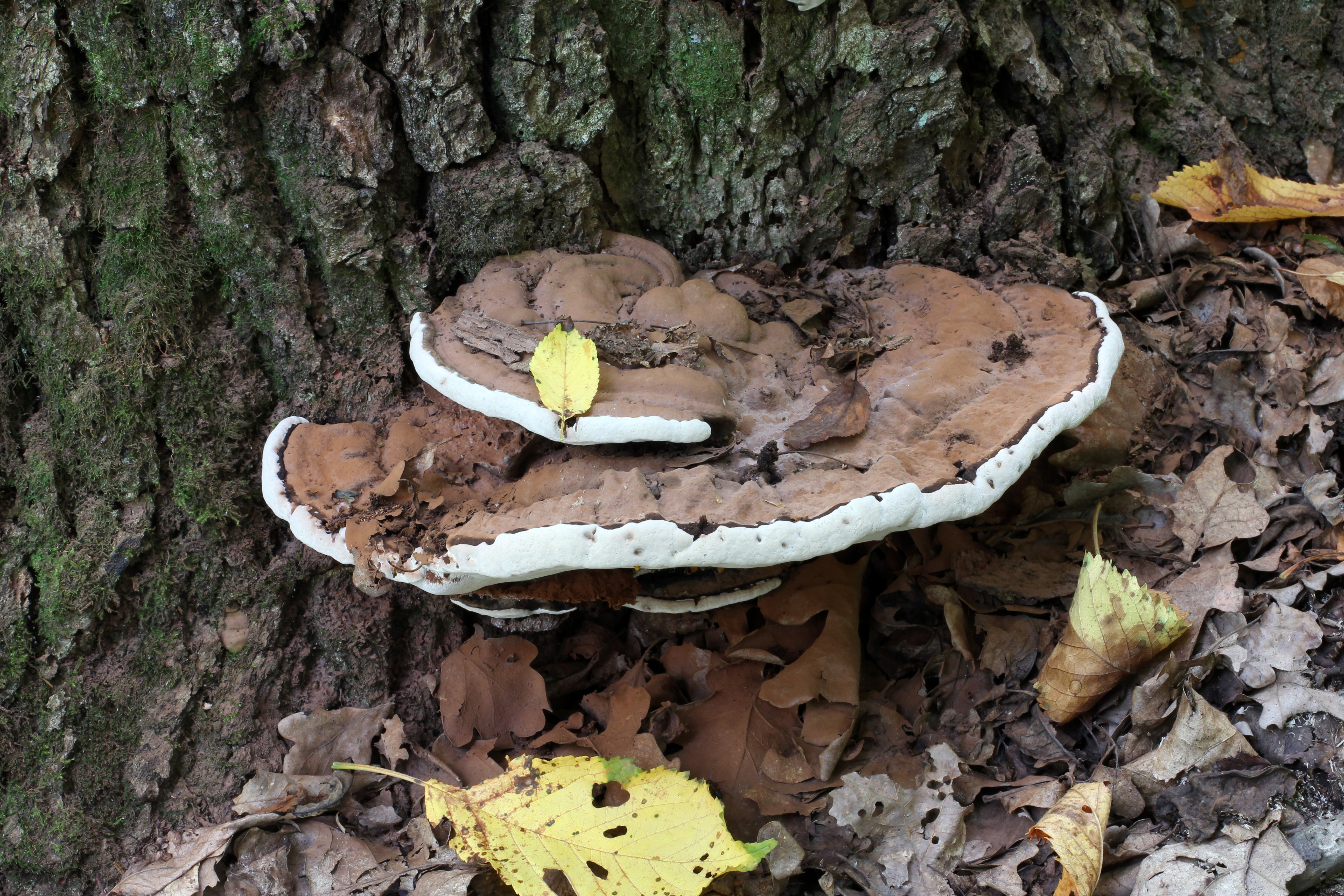 The Artist's Conk (Ganoderma applanatum). Ukraine.